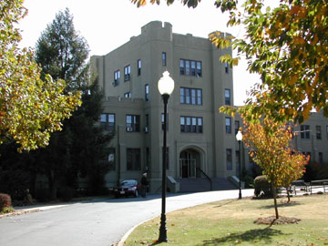 Hatcher Hall, the main administrative building of Fork Union Military Academy